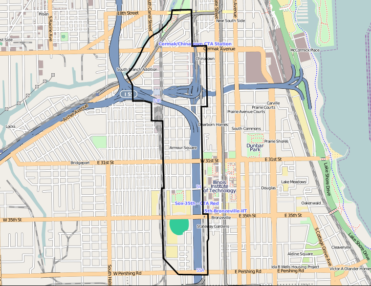 Armour Square, Chicago map This map may be incomplete, and may contain errors. Don't rely solely on it for navigation.